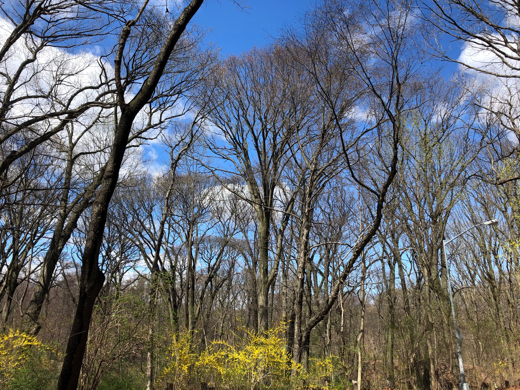 Forest Park, in Queens, in early spring 2019.